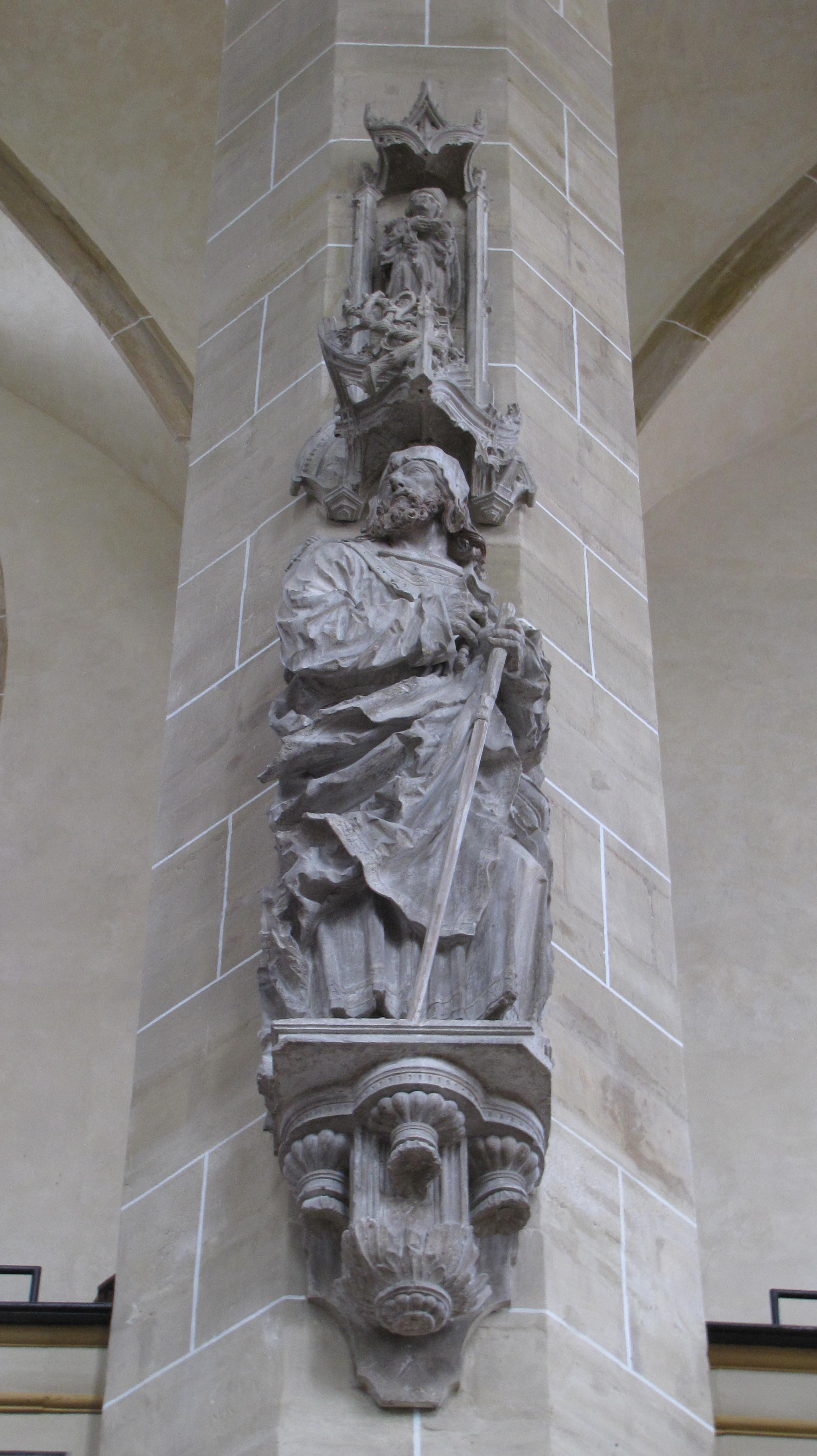 Interior of Dom zu Halle: Apostle James the Greater